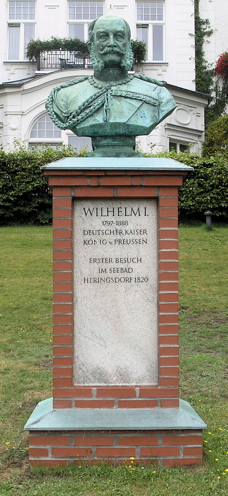 Memorial, Wilhelm I. (Deutsches Reich), Dellbrückstraße 8, Heringsdorf, Germany